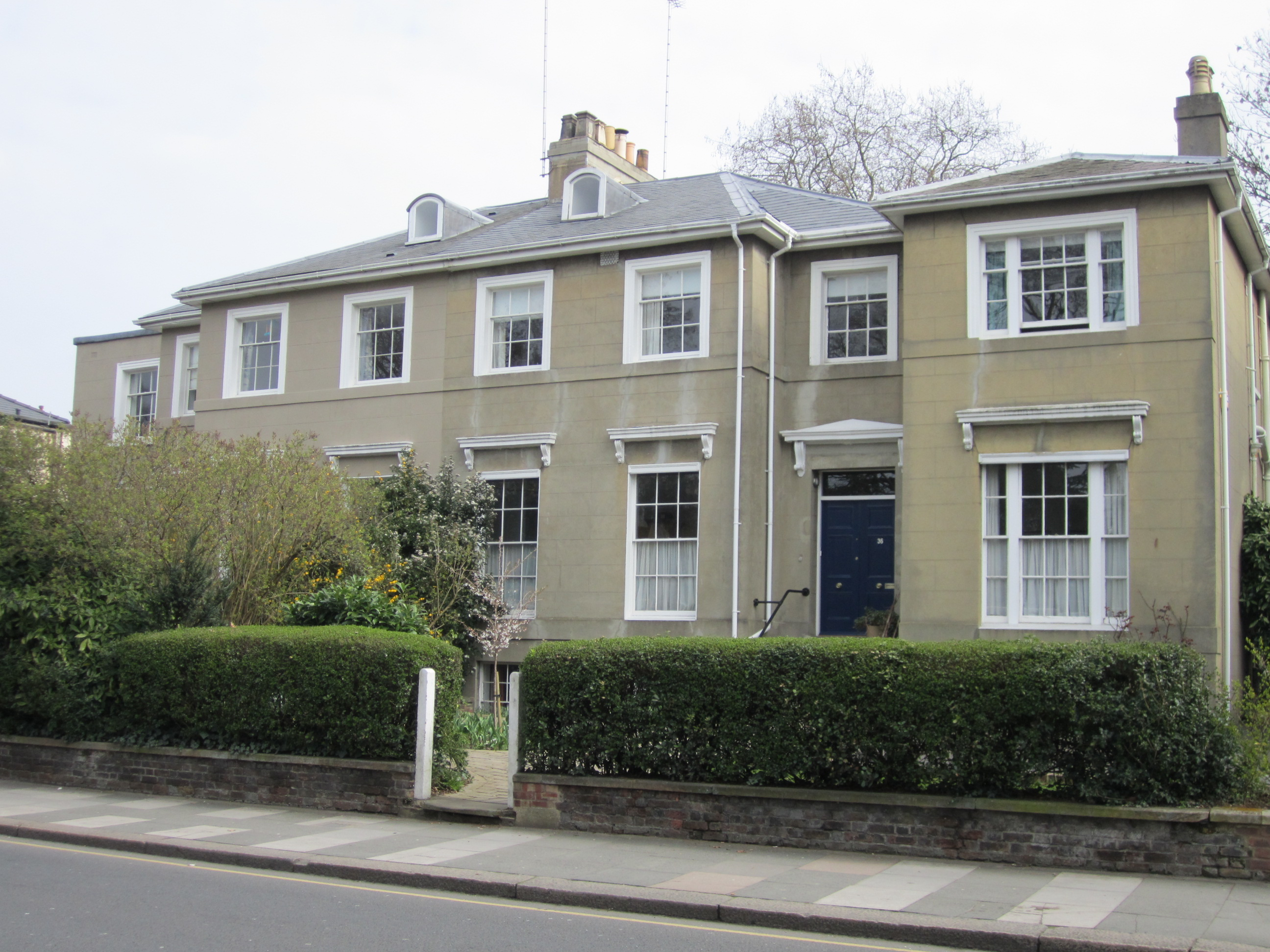 Nos 36 & 38 Claremont Road Surbiton (Pooley period).